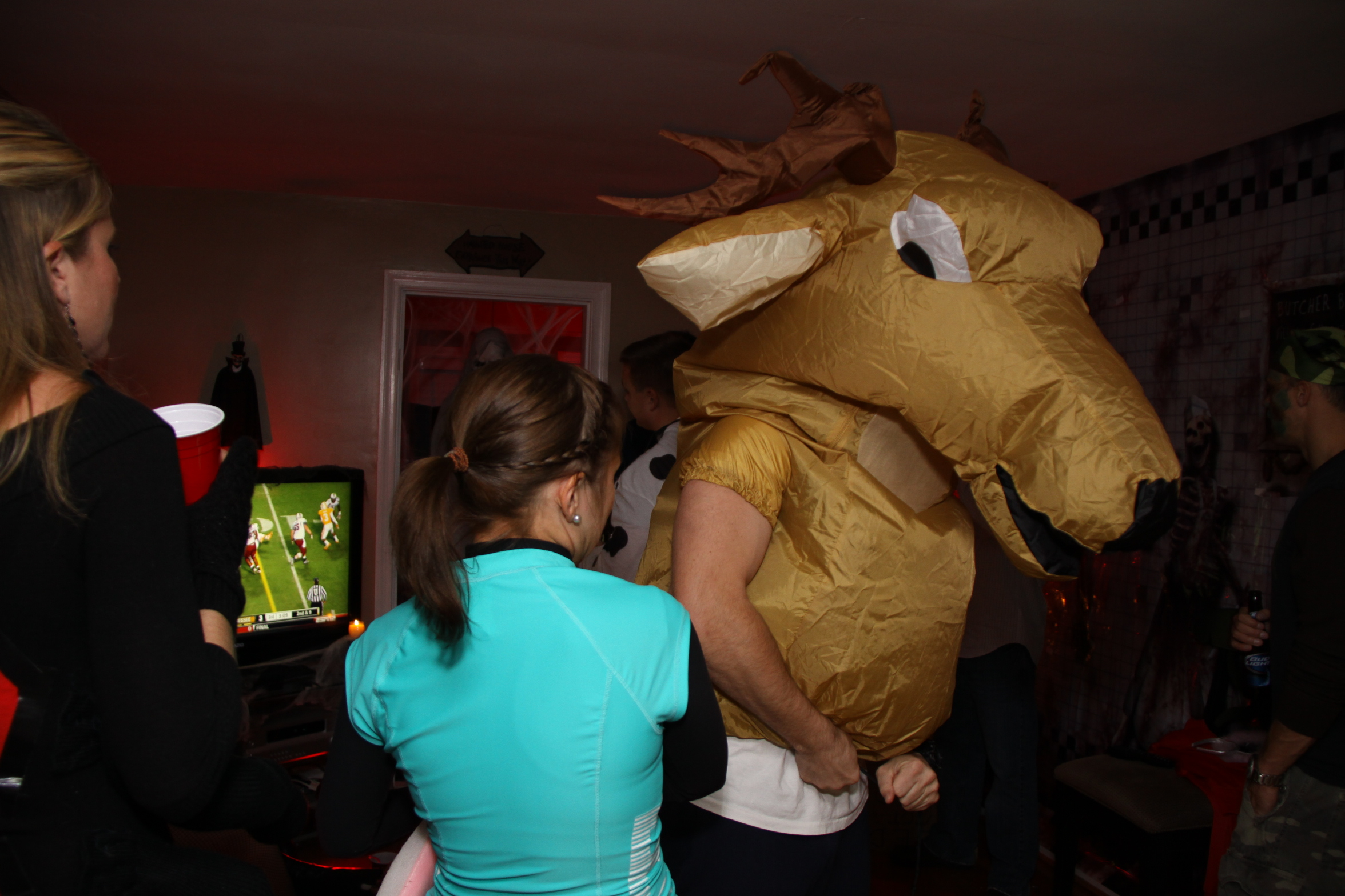 A man dressed in an inflatable deer costume at a Halloween party in Richmond, Virginia, United States on October 29, 2011